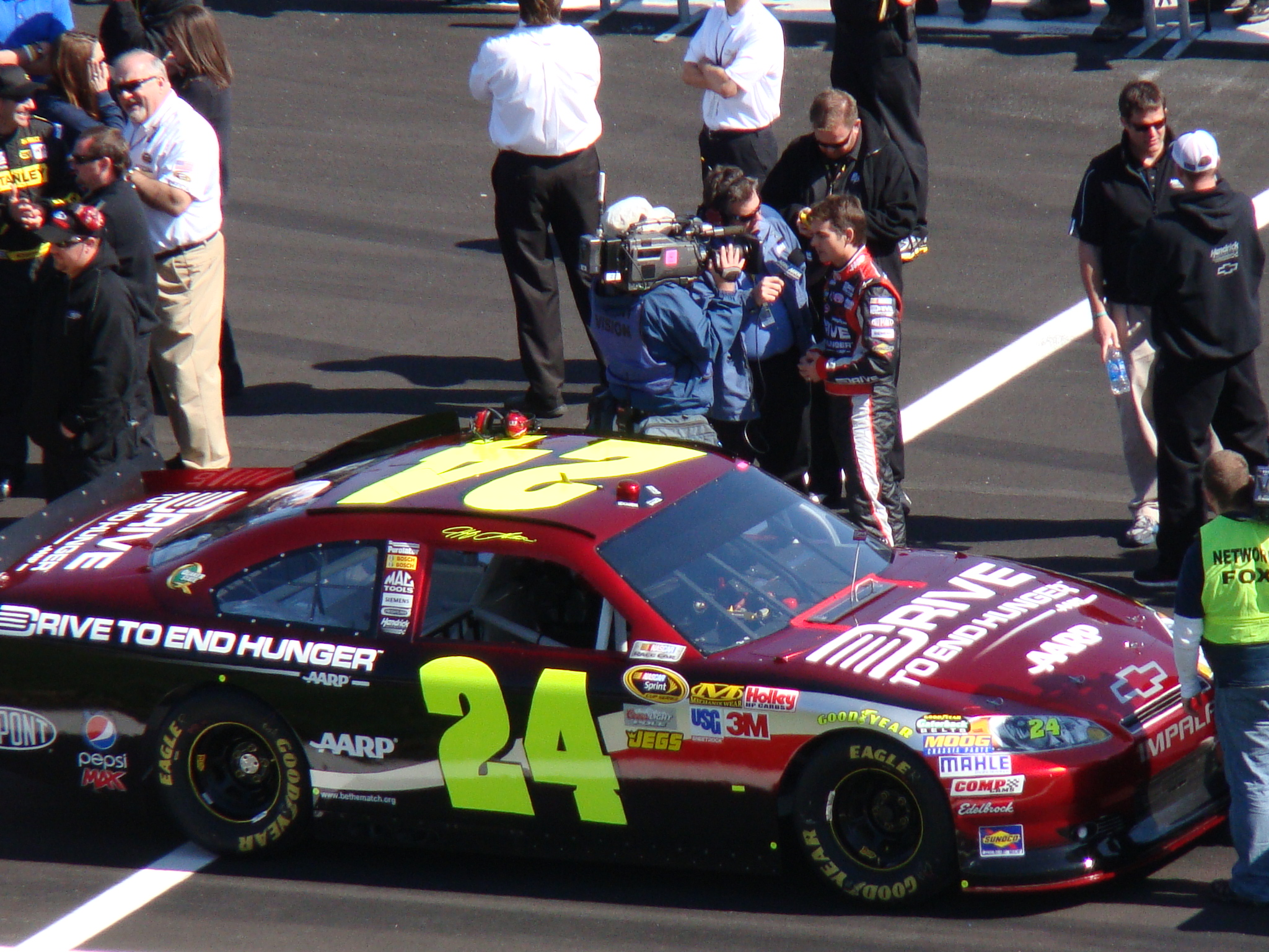 Jeff Gordon shown here at the Daytona International Speedway.